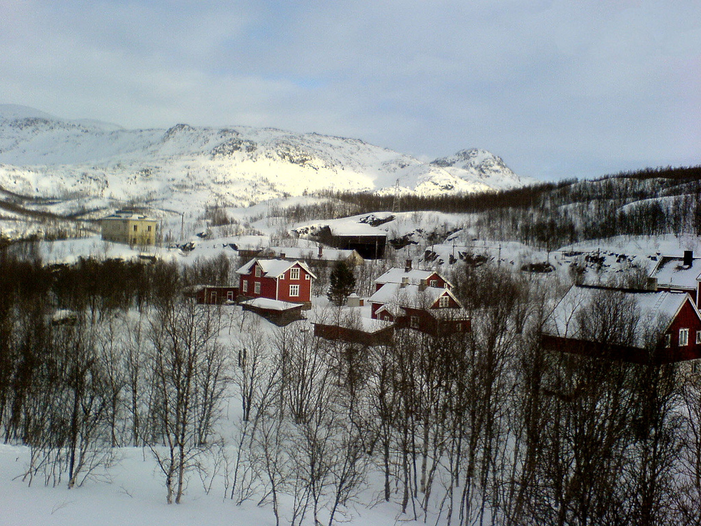 view of Katterat train station, Narvik municipality, Norway